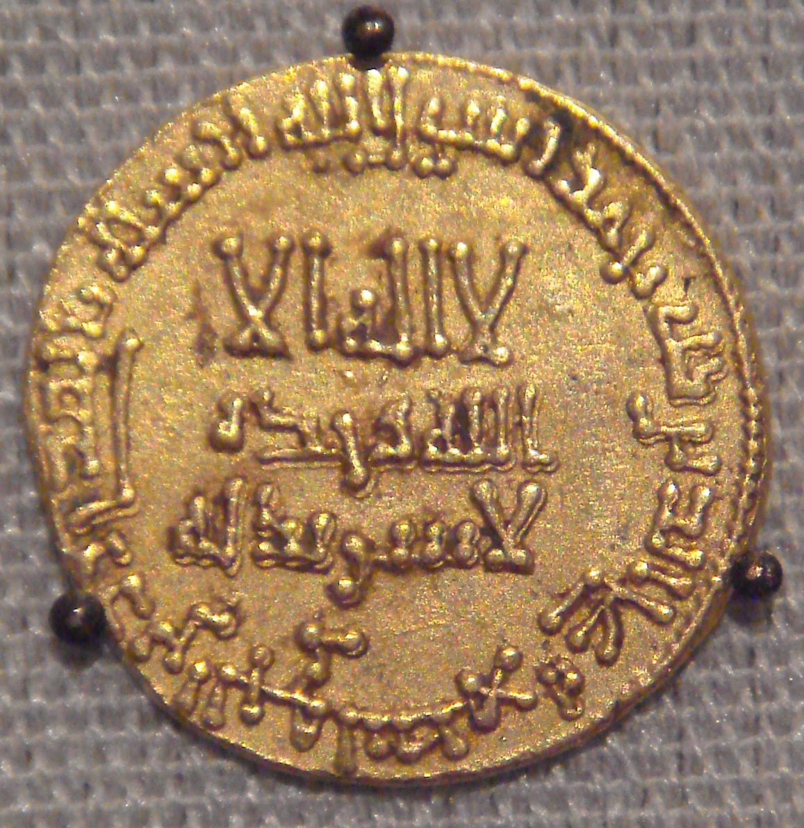 Abbasids_Baghdad_Iraq_765